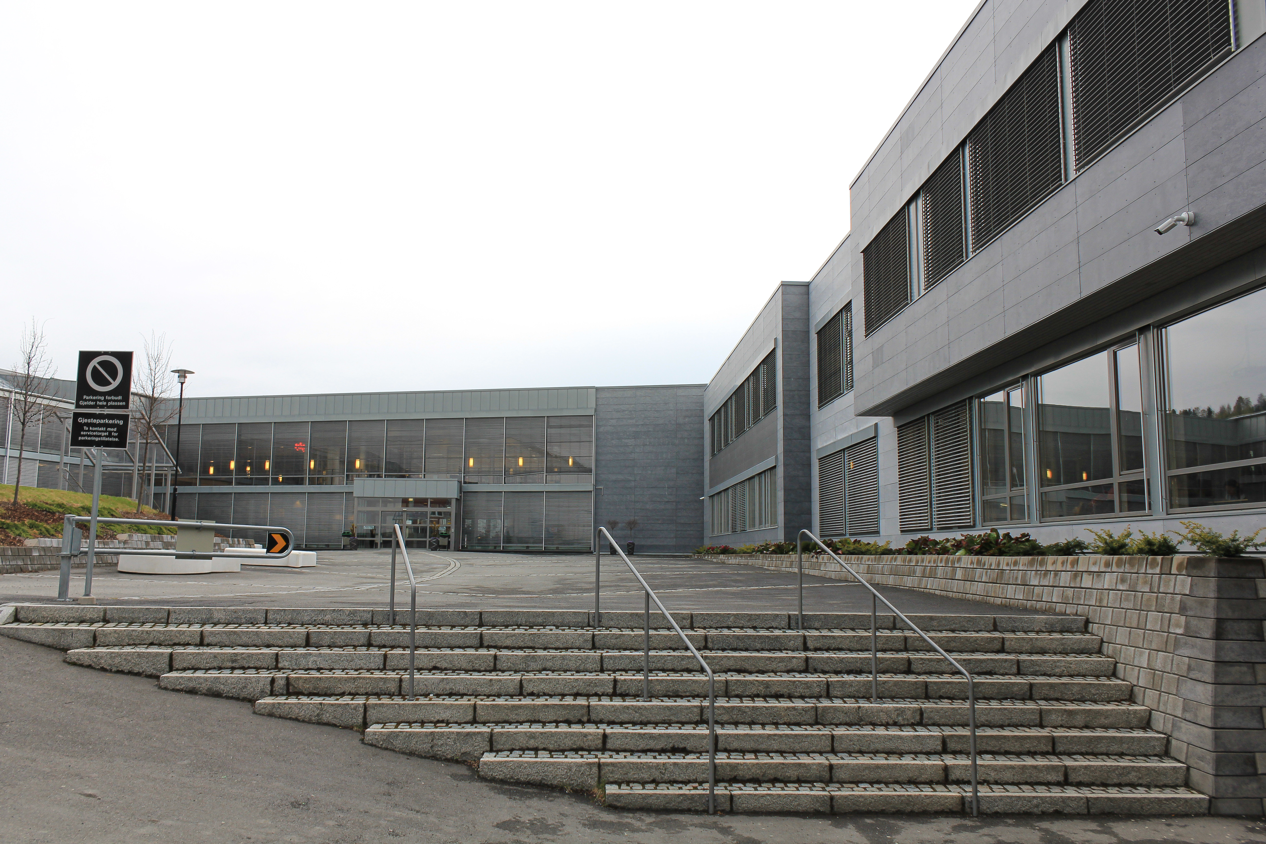 Gjøvik High School, Norway.